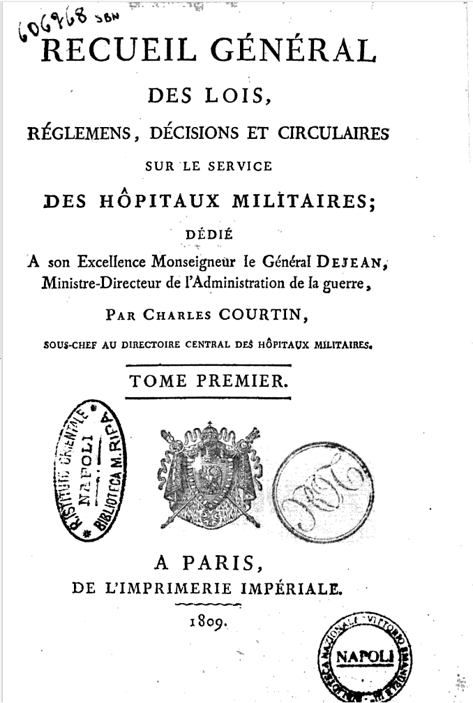 Couverture du "Recueil général des lois, réglemens, décisions et circulaires sur le service des hôpitaux militaires" par Charles Courtin, 1809.